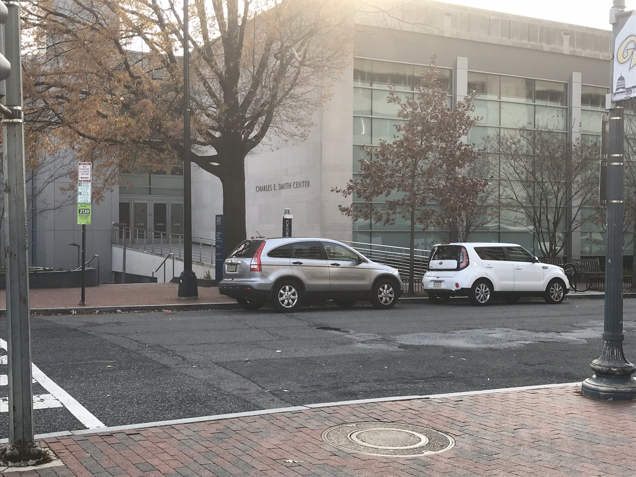 The entrance to the Charles E. Smith Center.